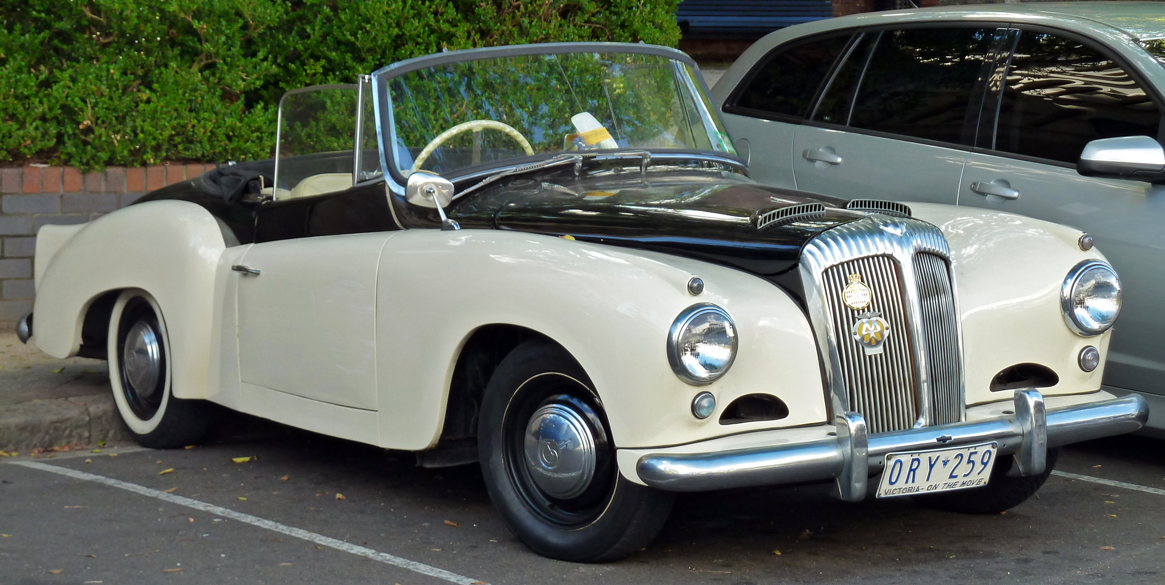 1957 Daimler Conquest (Mark II) Century drophead coupe. Photographed in The Rocks, New South Wales, Australia. Vehicle registration enquiry results Jurisdiction Victoria Registration ORY259 Chassis code 90537 Engine code 73961 Compliance date Not available Year of manufacture 1957 Chassis numbers as per The Daimler Tradition by Brian E Smith Type DJ 254/5 Roadster 90450–90497 90850–90866 Drophead coupé 90500–90553